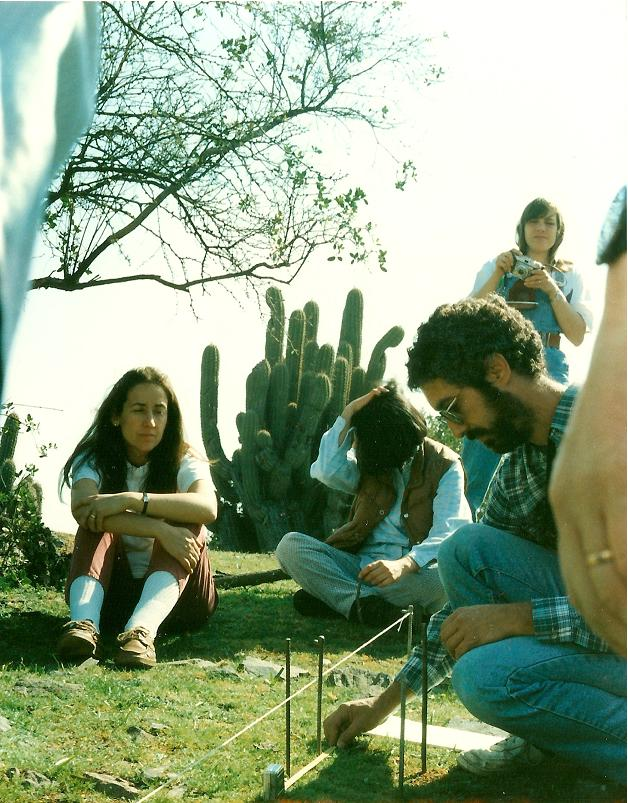 Jack Rossen and student at La Compañia